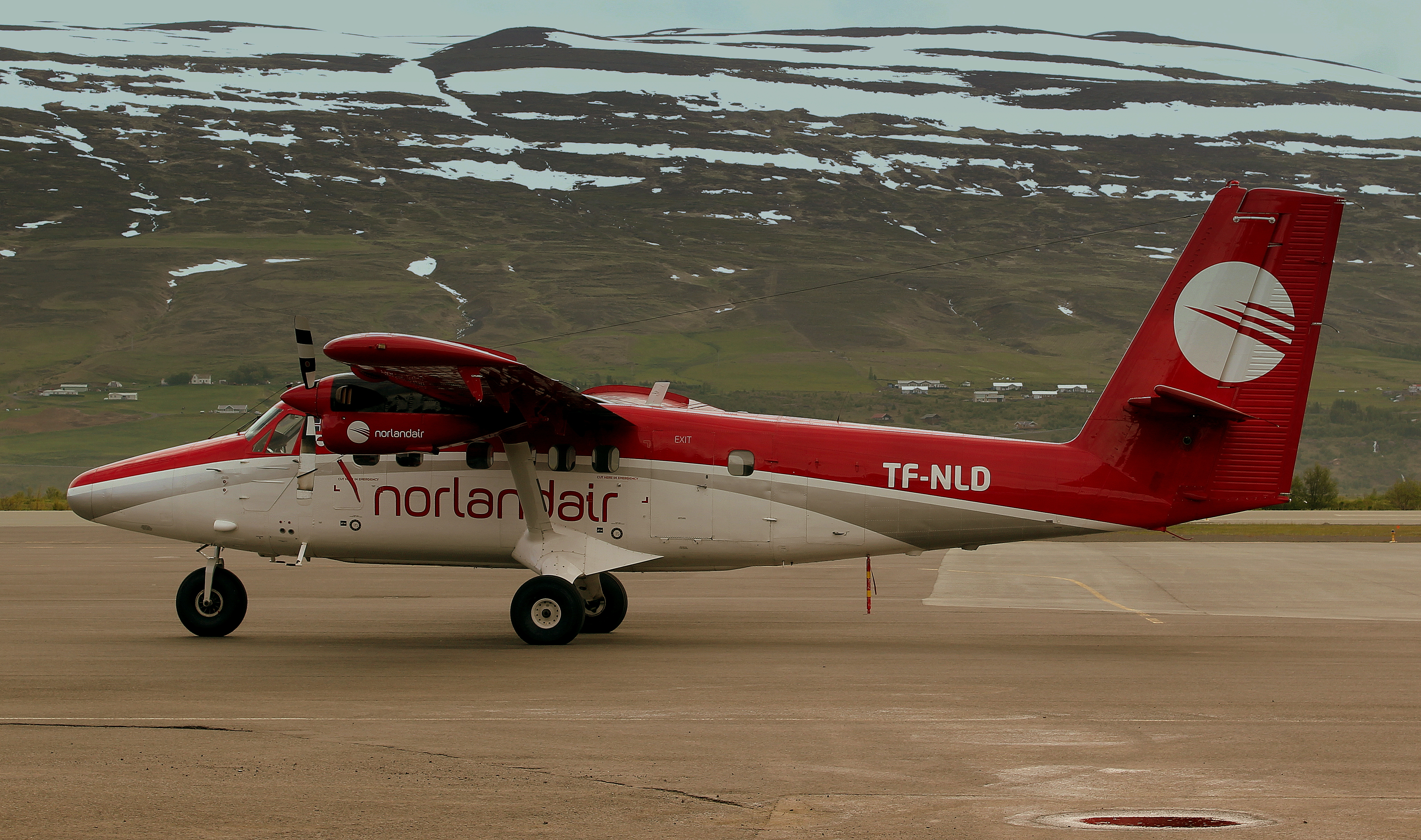 NORLANDAIR DHC6 TWIN OTTER TF-NLD AT AURKEYRI AIRPORT ICELAND JUNE 2014